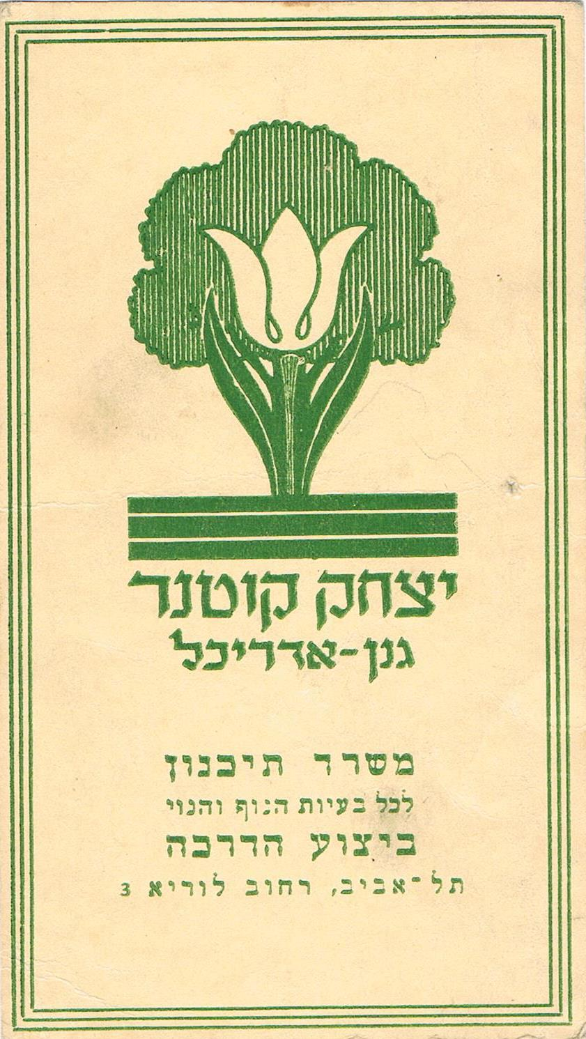 Itzhak Kutner busness card, from his office in Tek Aviv